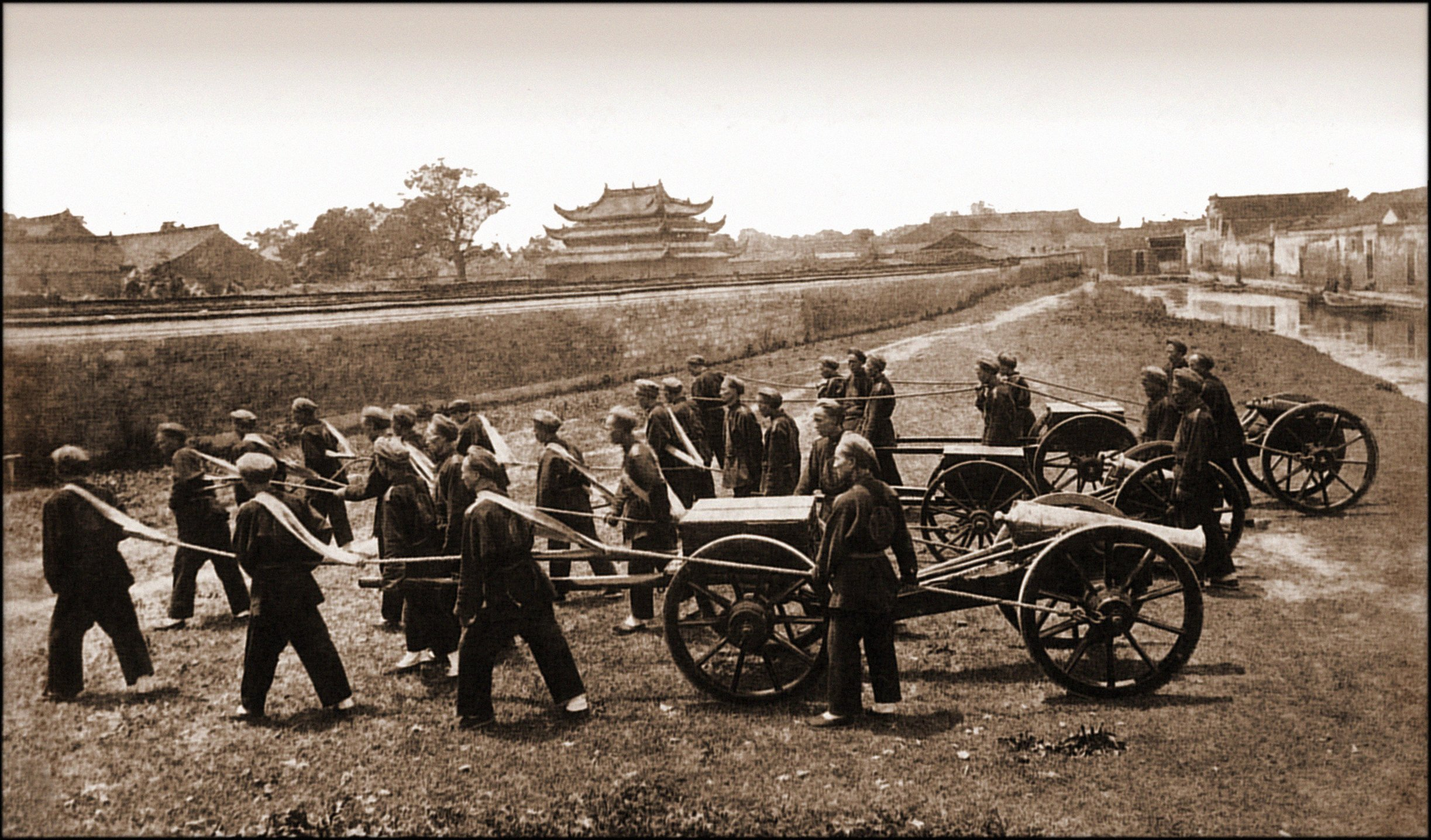 Entitled: Mercenary Artillerymen Supplied With Guns & Ammunition By The British, China [c1880] Attribution Unk (possibly William Saunders) [RESTORED] The original seems to have been a scan from a printed page (supposedly from an out of print book entitled: China Illustrated, publisher unk, on page 109). This was a tough image to work with as the original was probably an old dot matrix newsprint image that, once enlarged, easily fell apart into a dot pattern. I blurred the dots just enough to make them seem cohesive, then had to resharpen the image so that it didn't appear too soft. Thereafter, the usual spotting and scratch repair, contrast and tone adjustments.